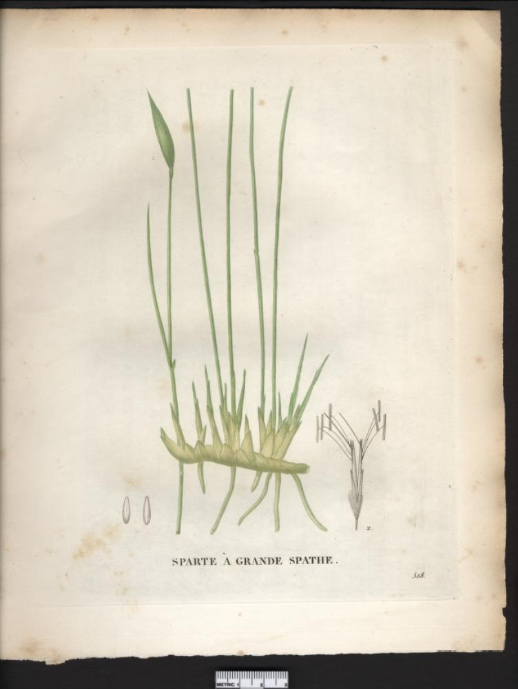 Illustration of Lygeum spartum (Orig. Sparte á grande spathe)